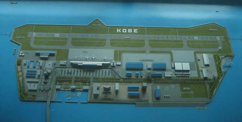 Model of Kobe Airport 1:2500 (Kobe, Japan)